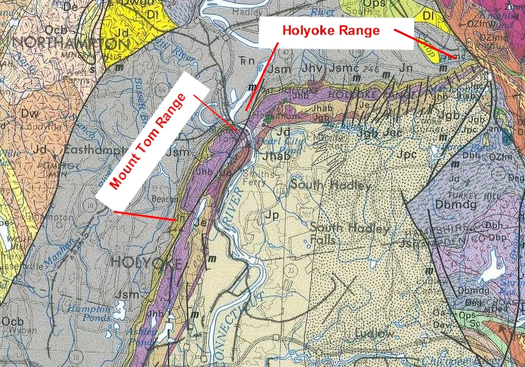 from USGS Bedrock Geology of Massachusetts, 1983. Showing the bedrock of the Holyoke and Mount Tom Ranges; labels added. For Holyoke Range